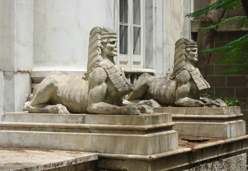 Mason temple in Santa Cruz, Tenerife. Unique in his kind in Spain, after the Civil War of 1937-39 was requisitioned by the Army, till late 90's. Now, back to the city counciol, is waiting for a restoration.